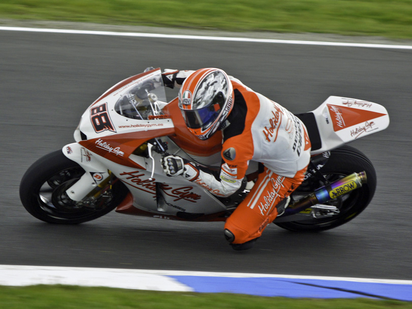 Yannick Guerra 2010 Phillip Island